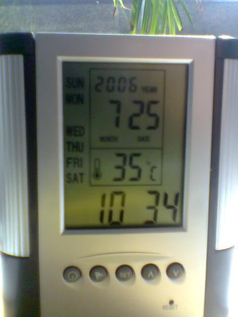 Heat